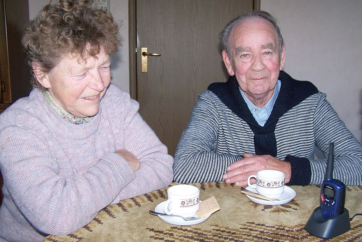 Picture of listeners (Maatman) to church radio in Wilp-achterhoek at nov 14th 2004.